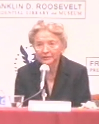 former Secretary of Education the Hon. Shirley Hufstedler.